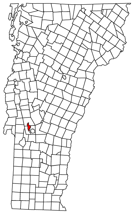 Description: Map of Vermont towns with Proctor highlighted Source: Map created by Jared C. Benedict on 26 March 2004. Copyright: © Jared C. Benedict.